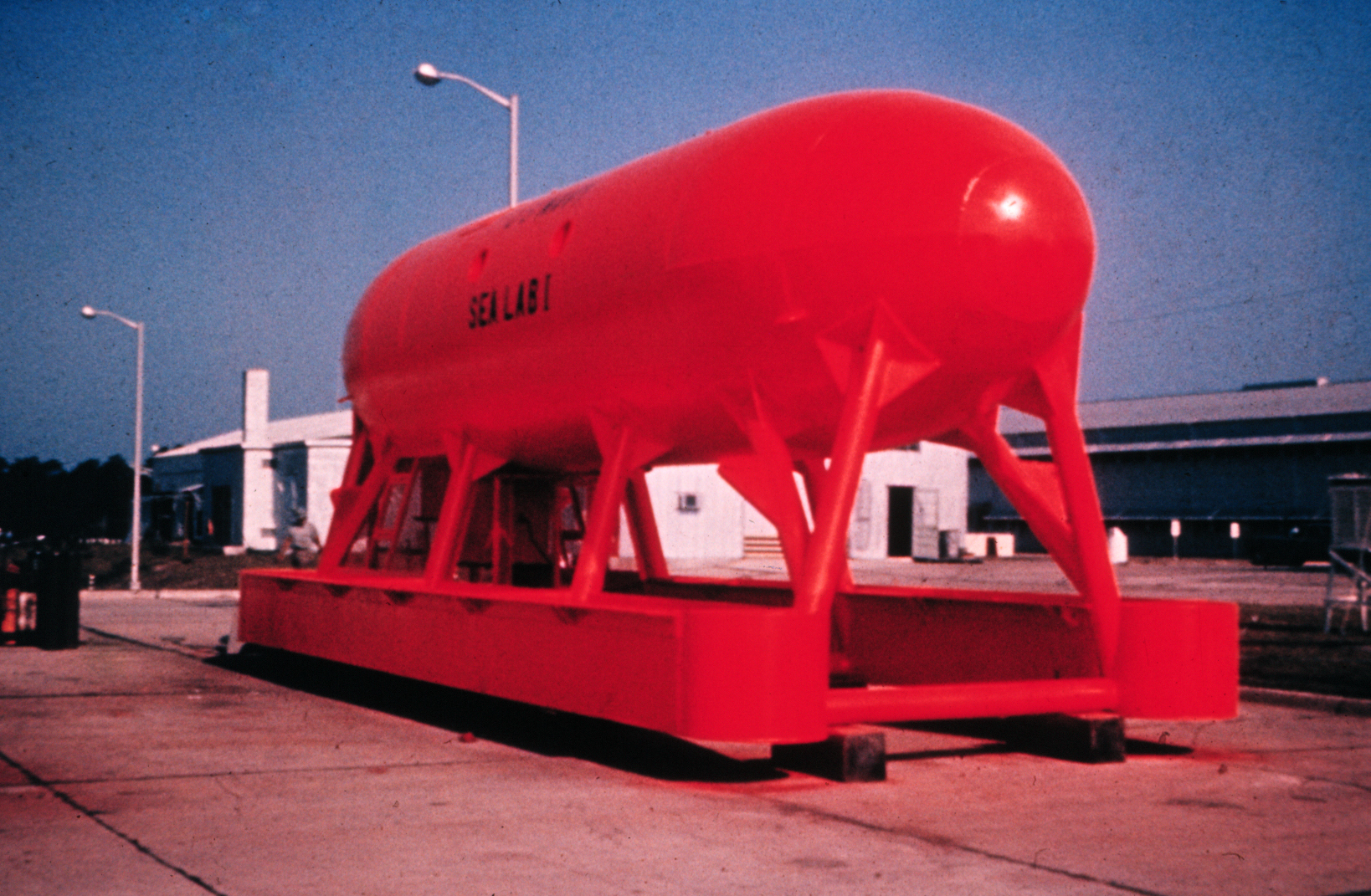 SEALAB I was the first habitat in the Navy's now defunct man-in-the-sea program.